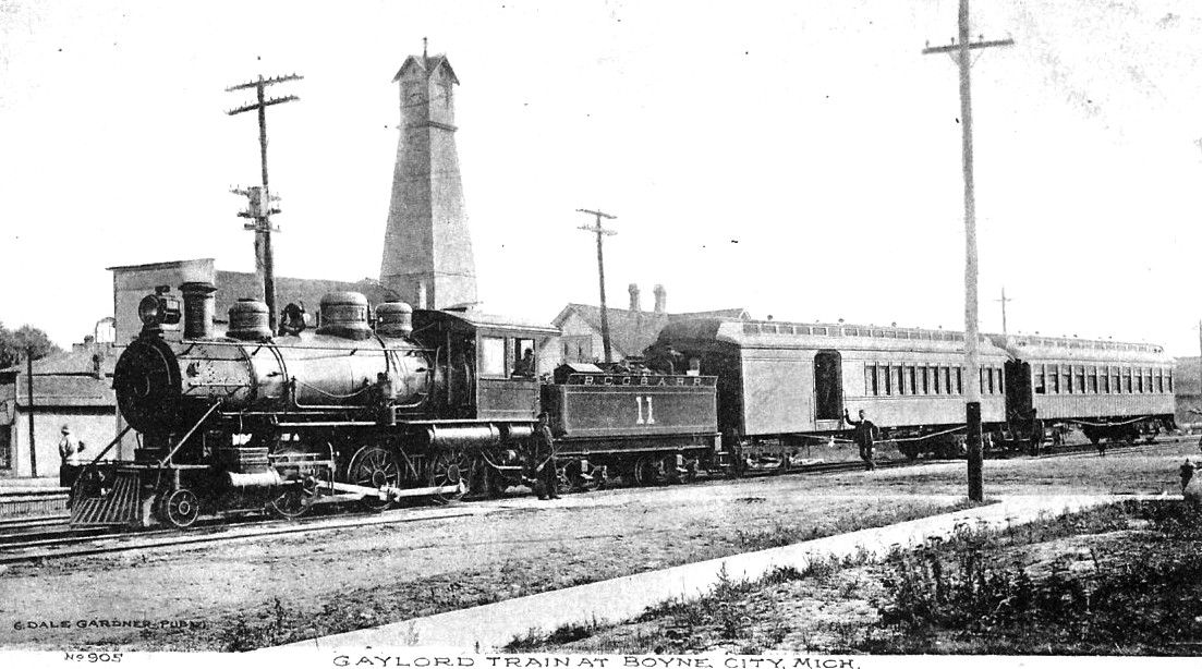 Photo of the Boyne City Railroad train to Gaylord at Boyne City, Michigan.